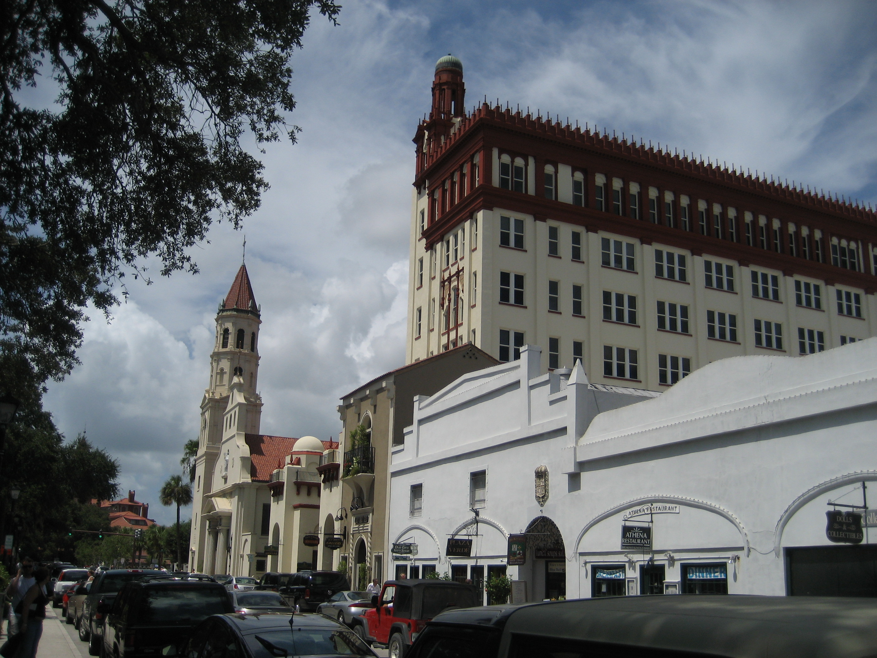 St. Augustine, Florida. Main square, old colonial historic district.